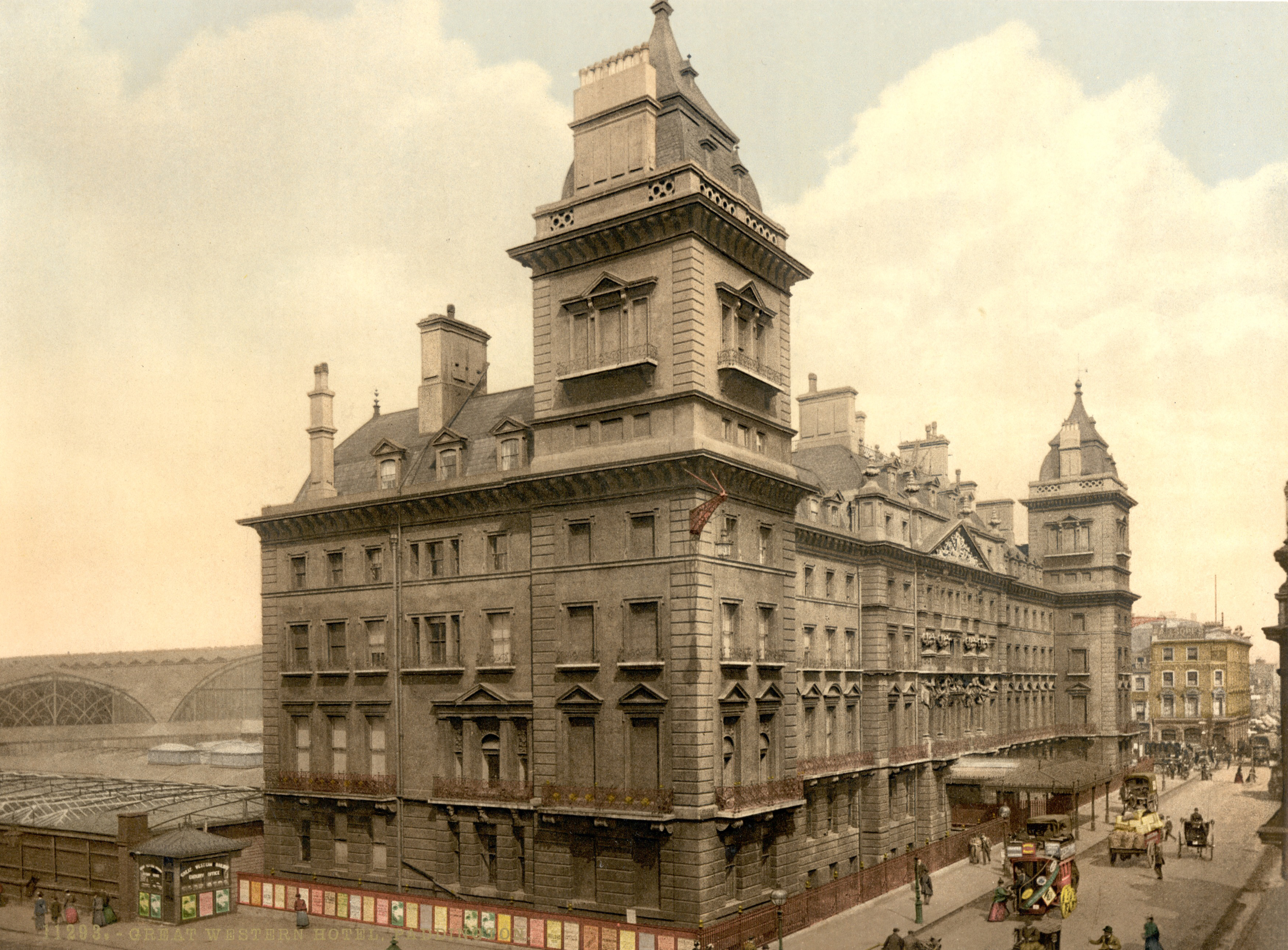 Forms part of: Views of the British Isles, in the Photochrom print collection.; More information about the Photochrom Print Collection is available at Title from the Detroit Publishing Co., Catalogue J-foreign section, Detroit, Mich. : Detroit Publishing Company, 1905: "Paddington, Great Western Hotel, London and suburbs, England."; Print no. "11293".; Title devised by Library staff.